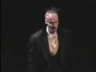 Hugh Panaro, singer and actor, in Phantom's Make-Up